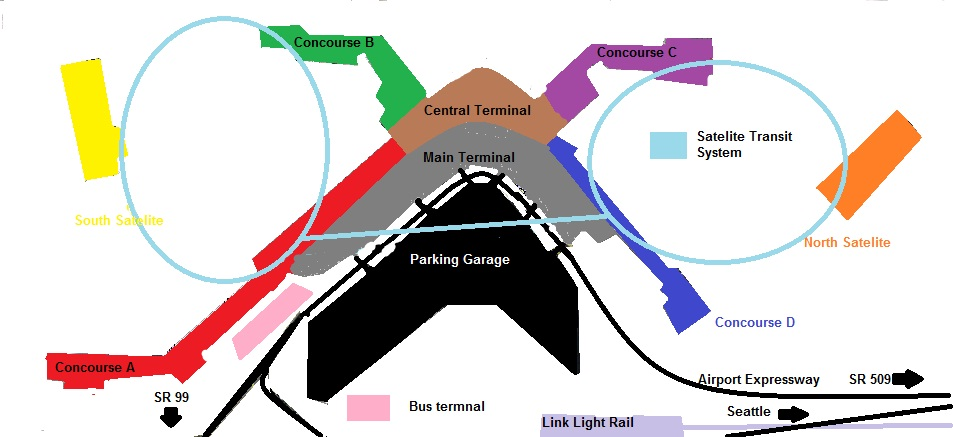 A simple map of . Created by me with help from Google Earth and the Seatac Airport's terminal map.